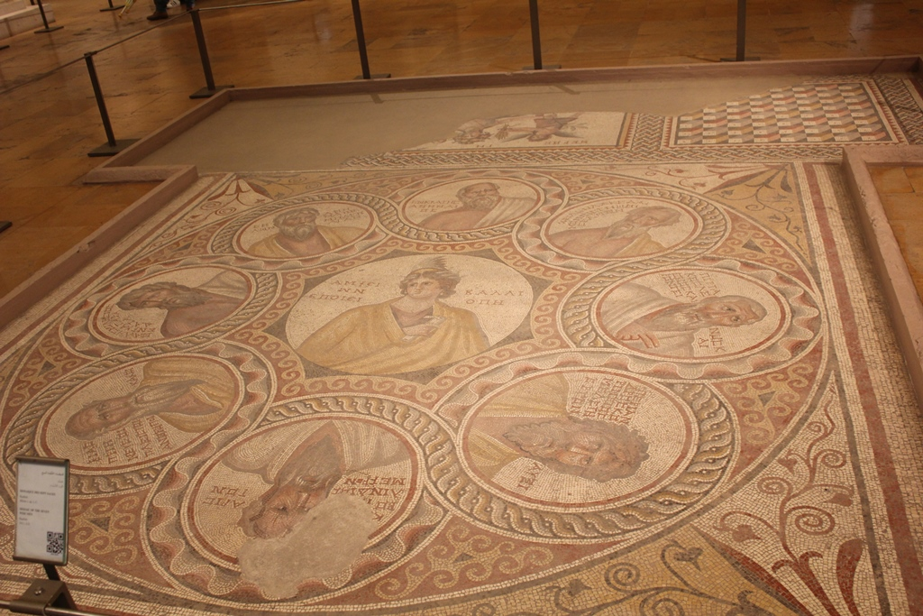 Seven Sages Mosaic of Baalbek dating to the 3rd Century AD Rectified version